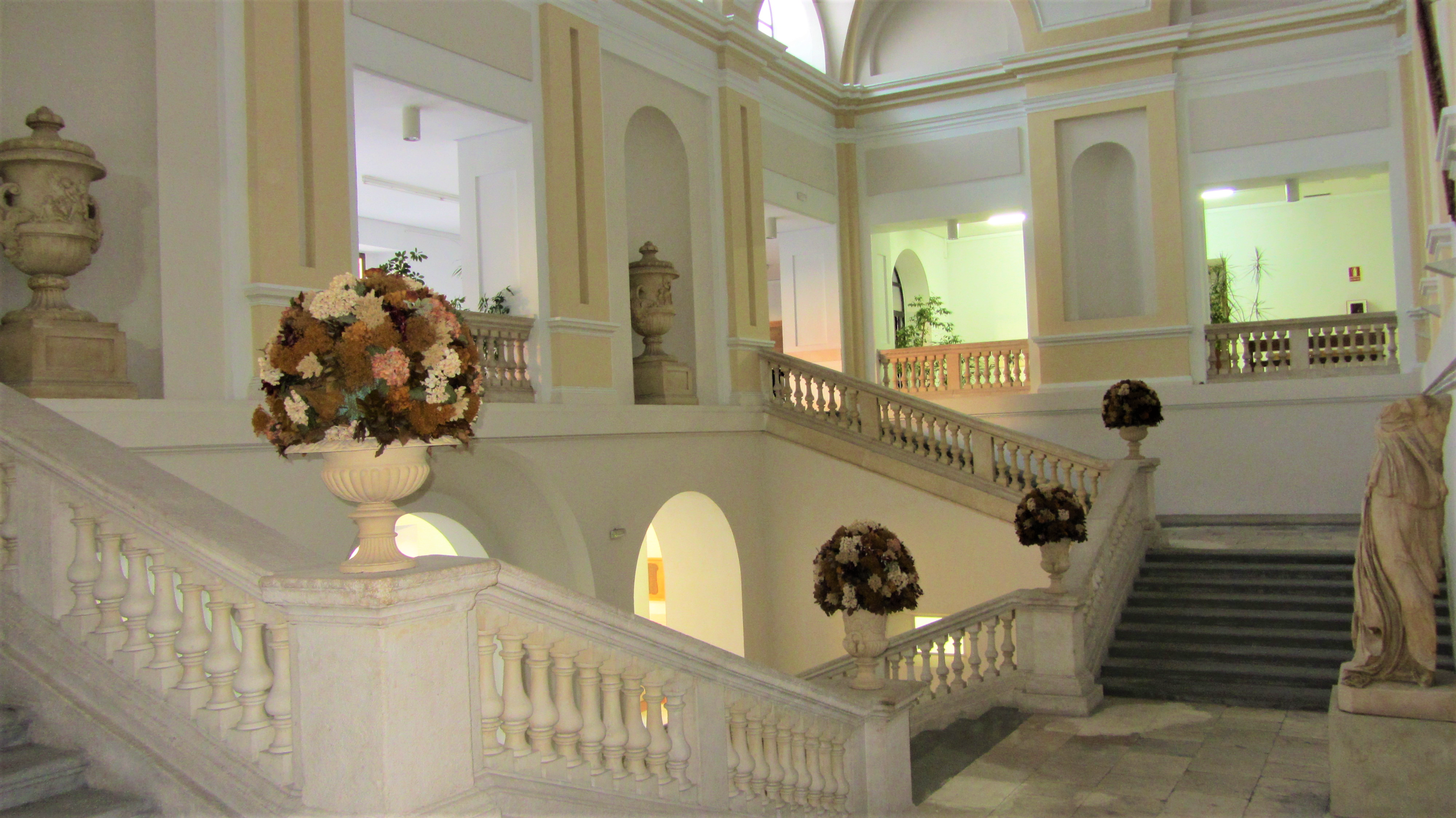 Grand Staircase of the Maximum School of the Society of Jesus. Actual Law school at the University of Alcalá (Alcalá de Henares - Spain).